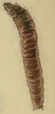 Stainton’s Natural History of the Tineina (1855–1873): Eulamprotes wilkella a sprig of Cerastium holosteoides eaten by larva